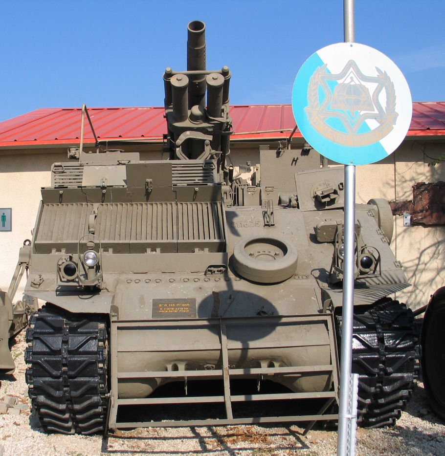 Description: Israeli M-50 155 mm self-propelled howitzer (M4 Sherman chassis carrying French Model 50 155mm howitzer) in Batey ha-Osef museum, Tel Aviv, Israel. 2005. Source: Photo by me, User:Bukvoed.